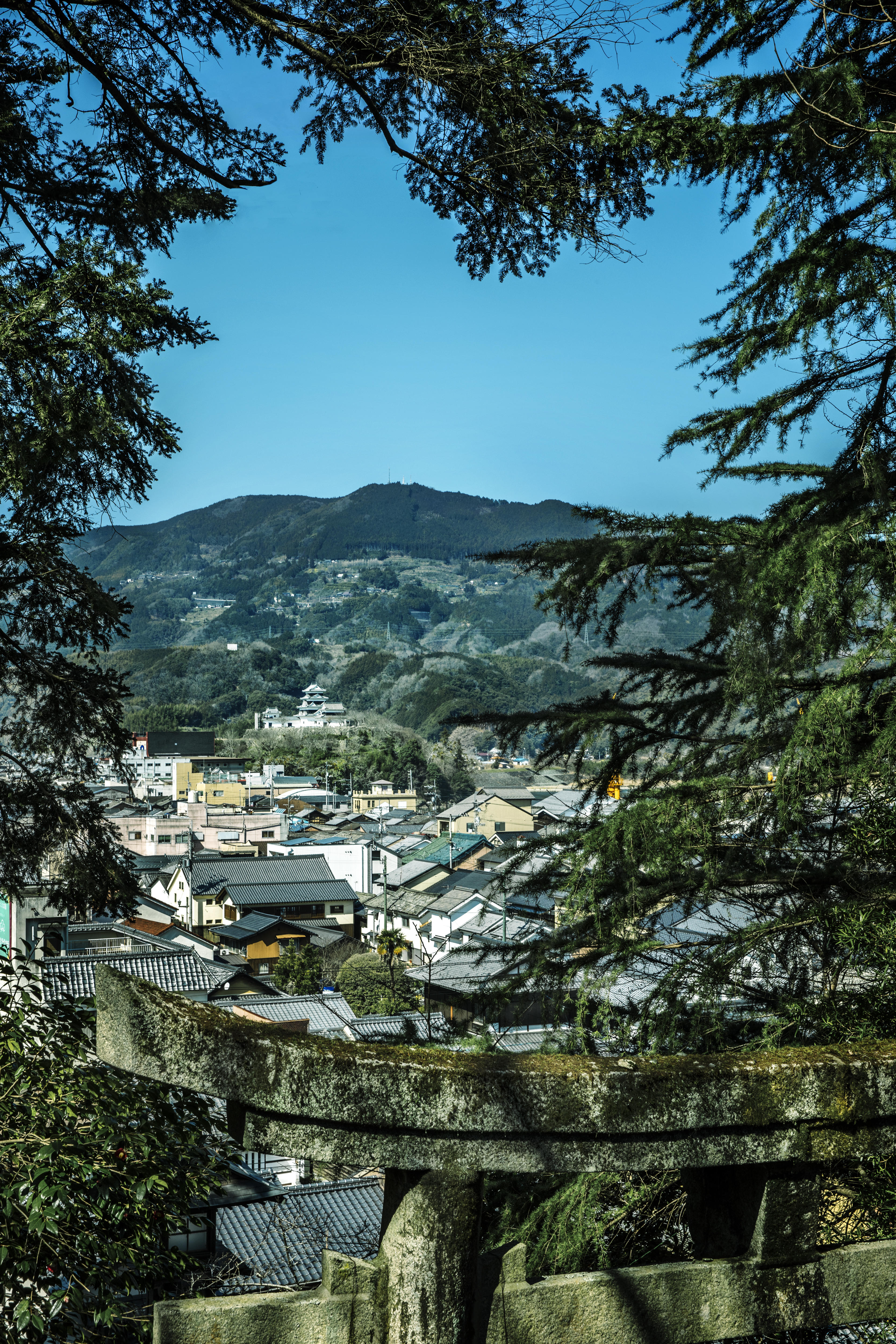 SHOKO TAKAYASU© March 2020